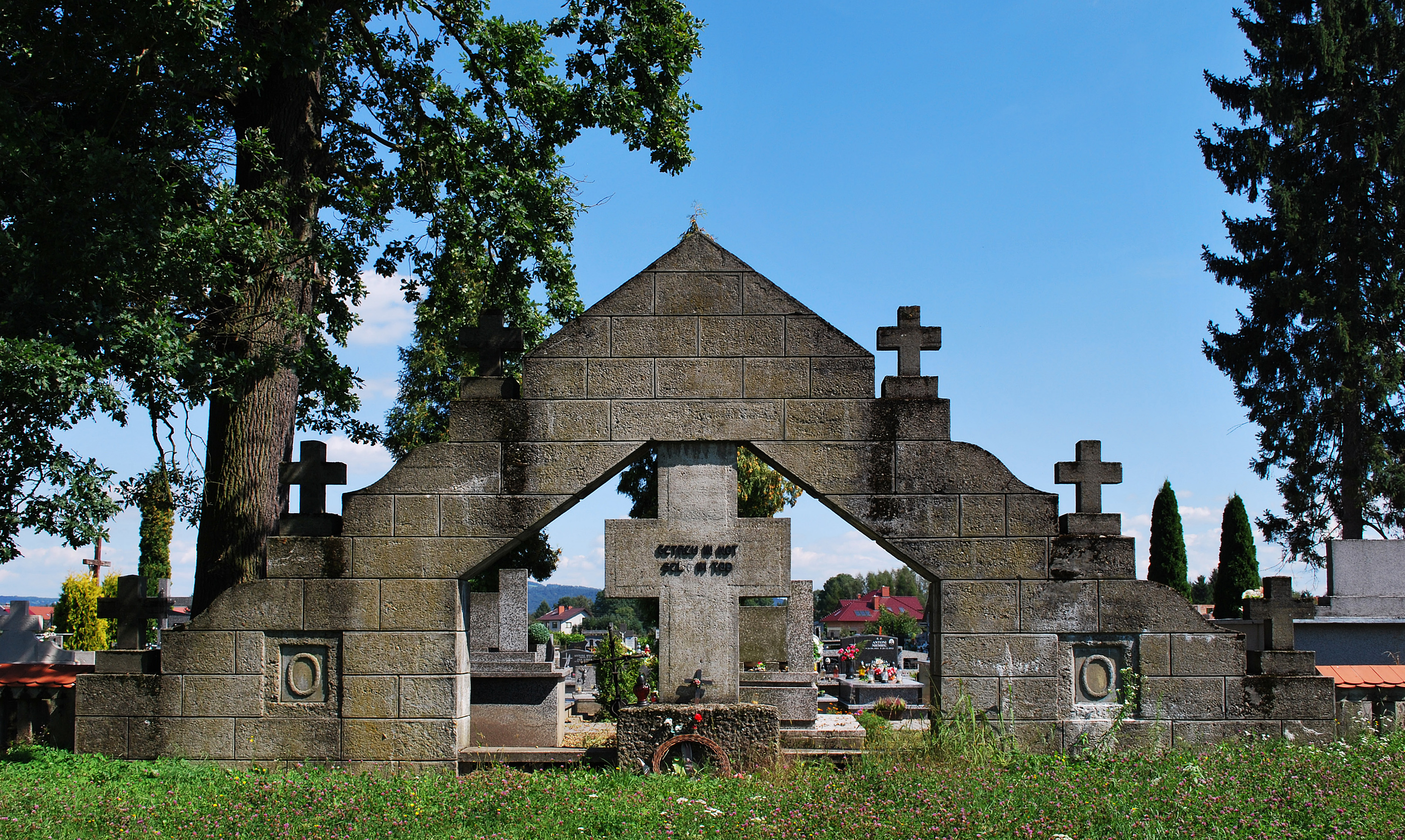 WWI, Military cemetery No. 294 Zakliczyn (monument), City of Zakliczyn, Tarnów county, Lesser Poland Voivodeship, Poland